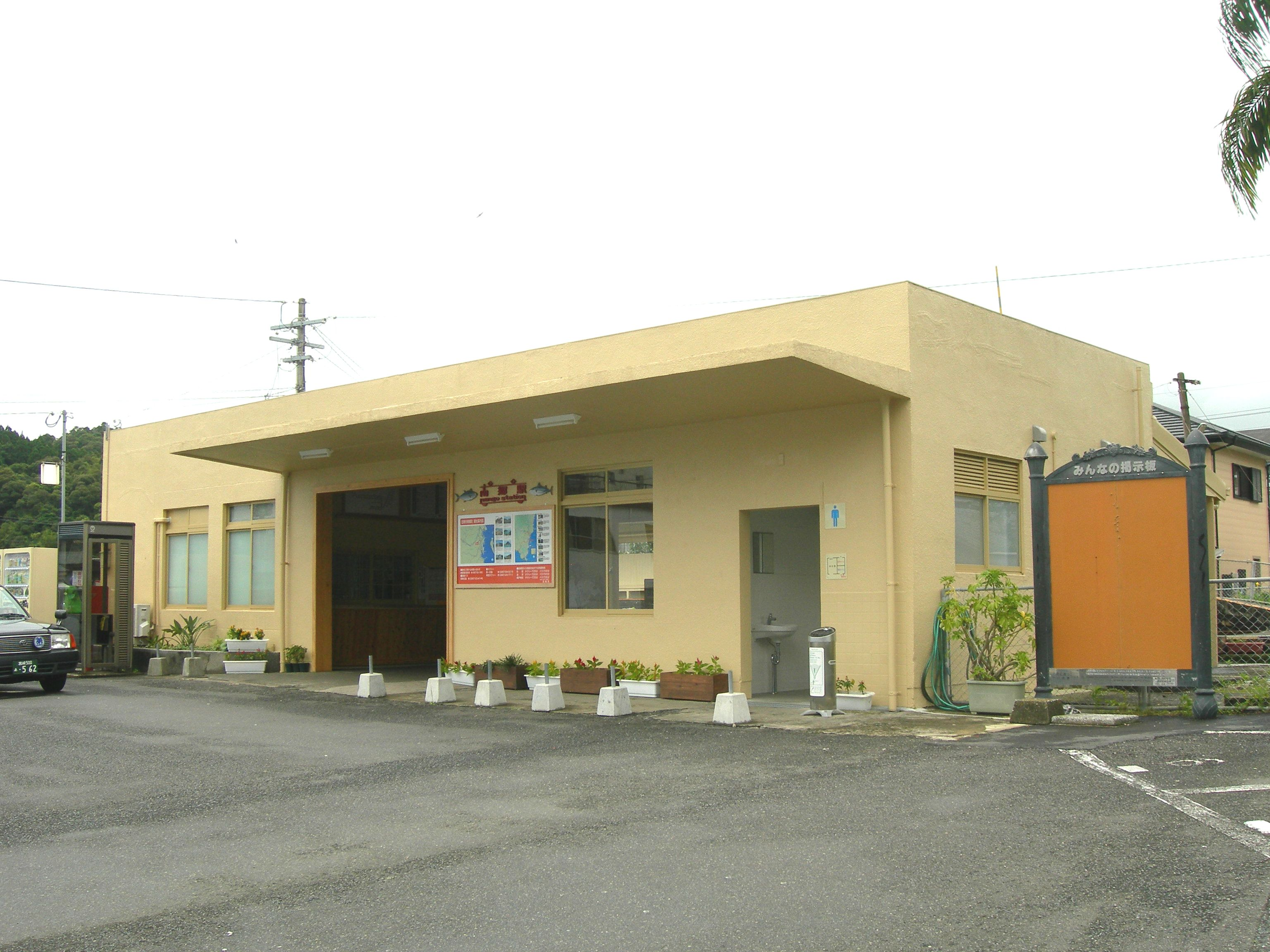 Nango Station